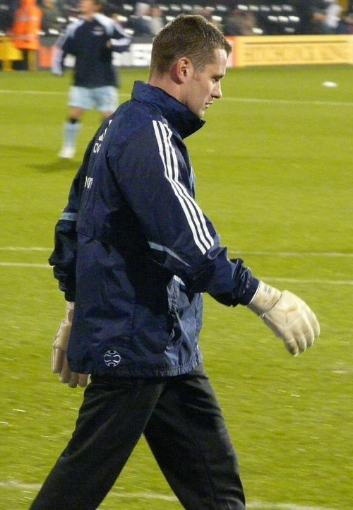 Irish football (soccer) player Shay Given